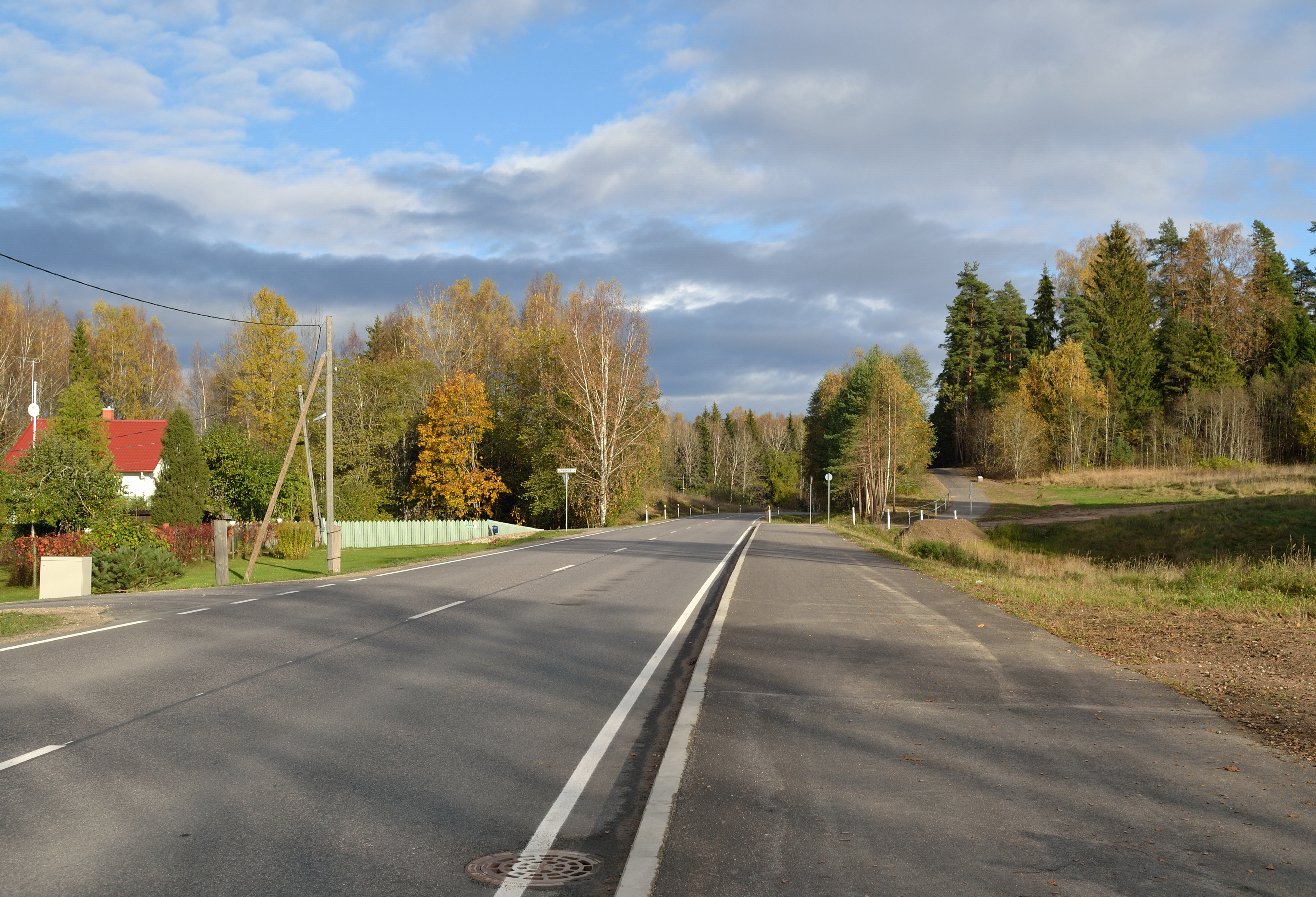 Jägala–Käravete road in Aegviidu